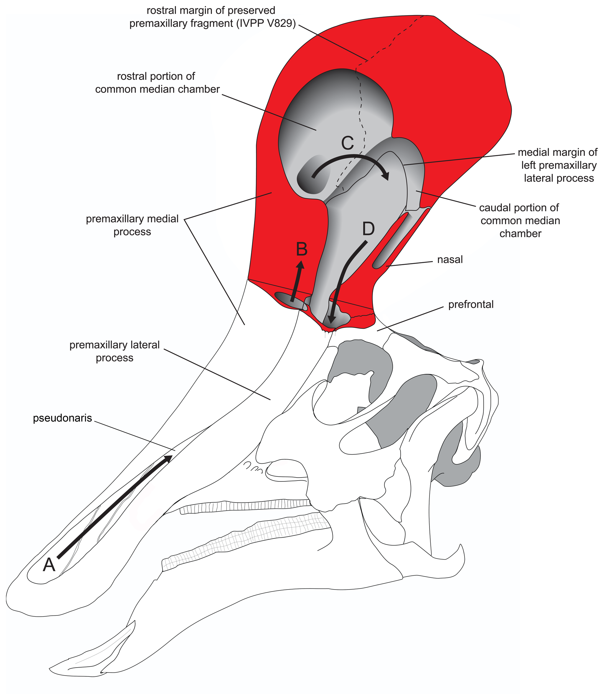 Model of internal crest anatomy of Tsintaosaurus spinorhinus. Based on the model in Fig. 7. Red indicates cut bone; arrows indicate hypothetical direction of airflow. A. Air enters the nasal passage through the left pseudonaris. B. Air passes dorsally into the crest from the left pseudonaris. C. Air from the right pseudonaris enters the common median chamber and passes caudally. D. Air from the left pseudonaris passes ventrally along the caudal margin of the crest into the cranial cavity.